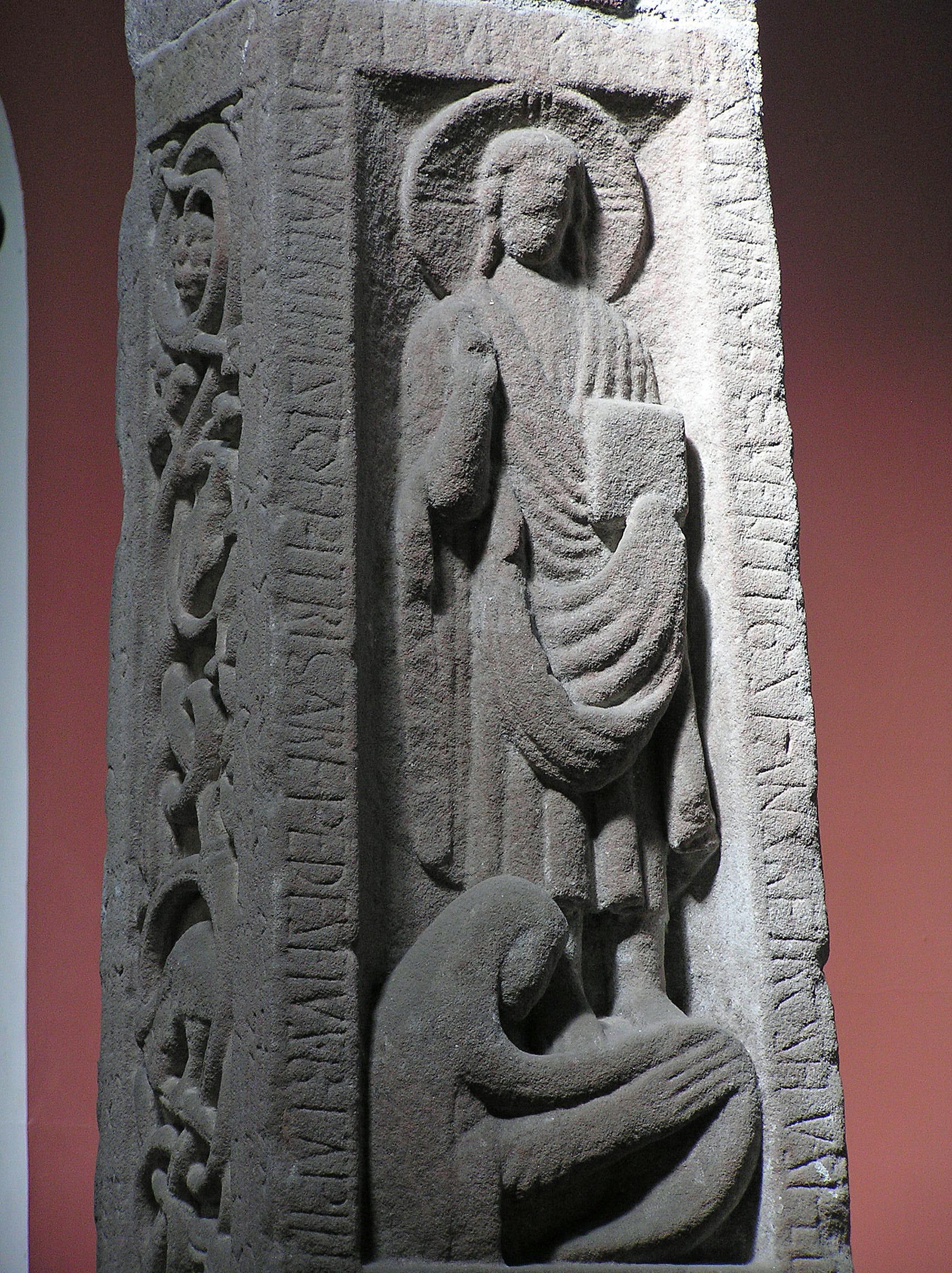 Detail from south face, the Ruthwell Cross, in Dumfries and Galloway, Scotland.